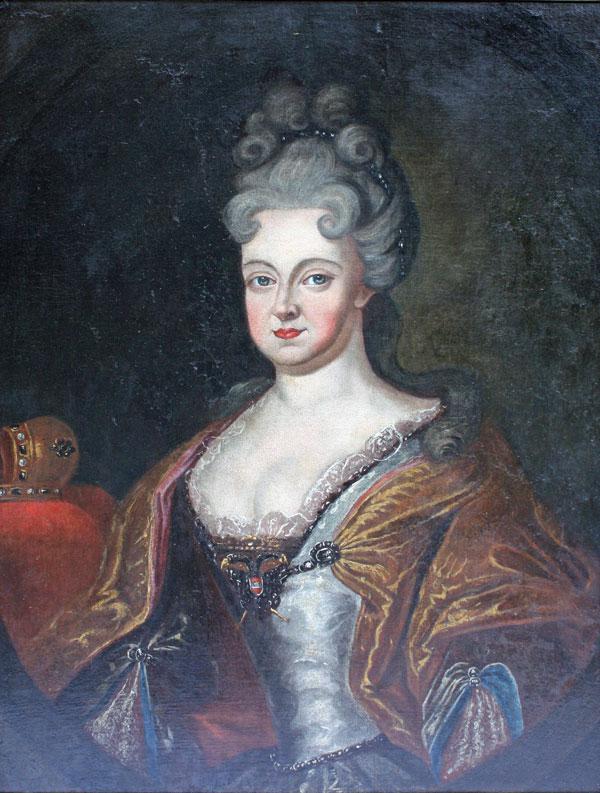 Portraits of Wilhelmine Amalia of Brunswick-Lüneburg (1673-1742)